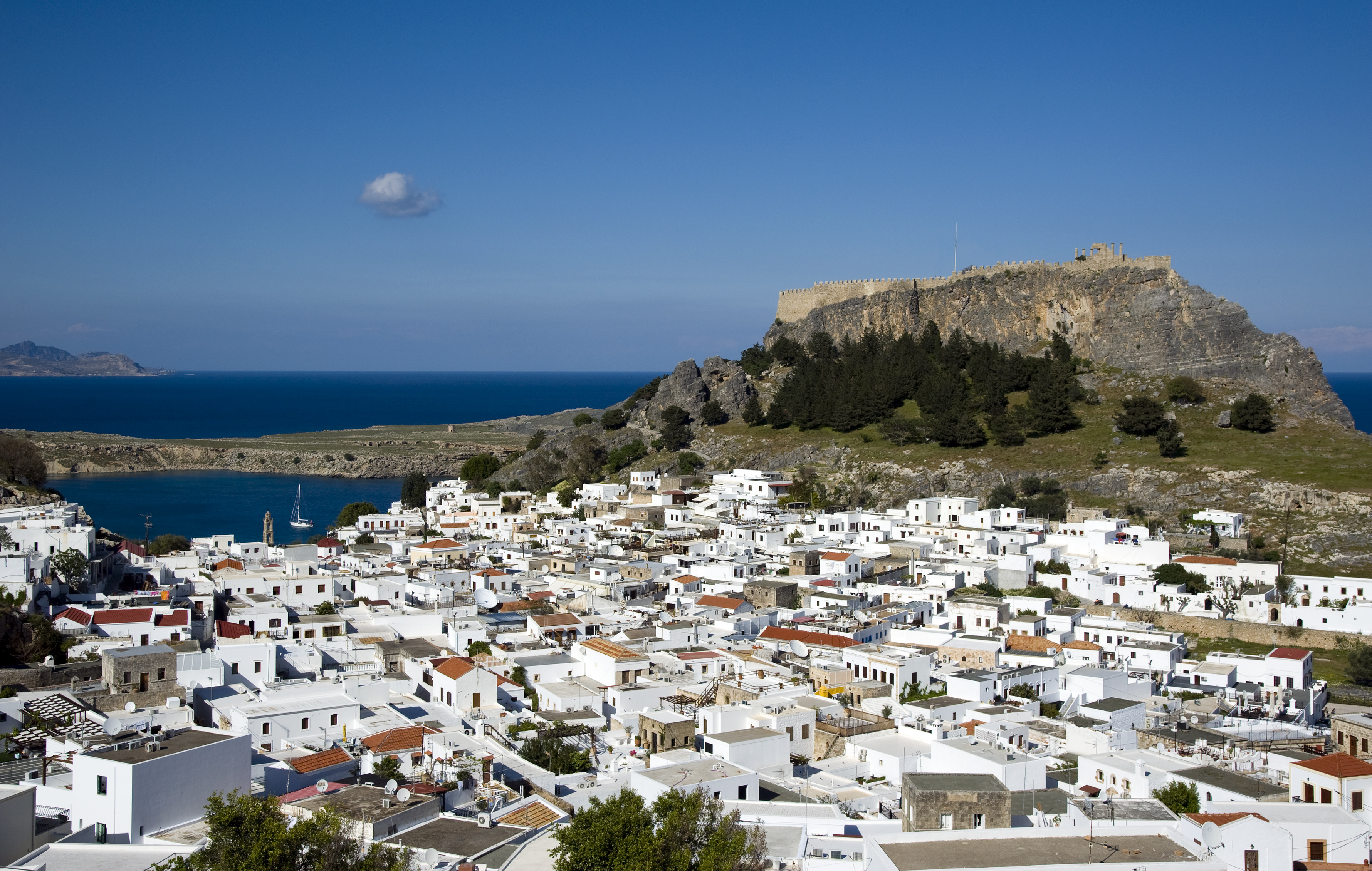 Lindos, Rhodes - Village overview with Acropolis and the Castle of the Knights of St John dominating the skyline.